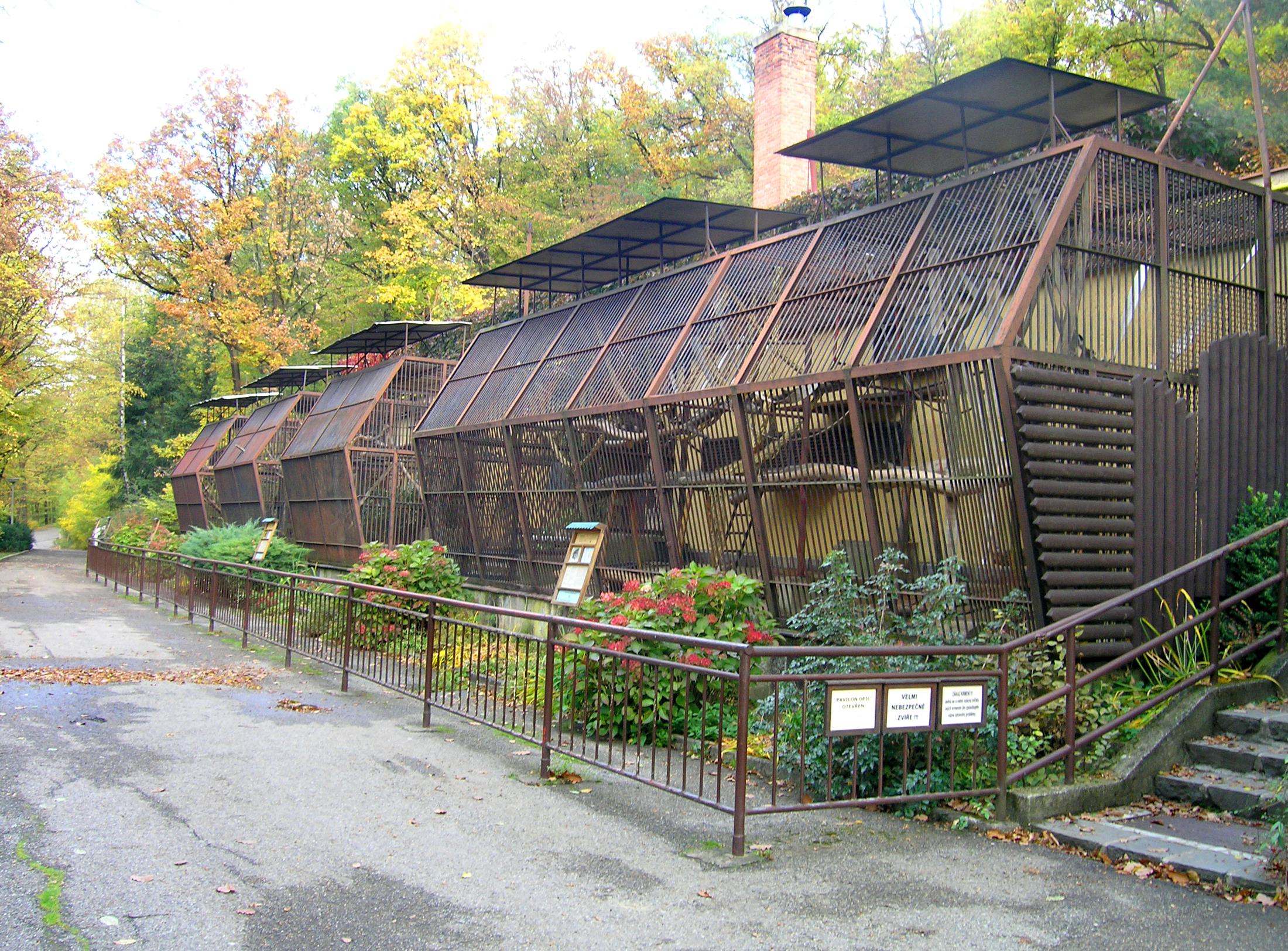 Pavilion of apes in Zoo Brno, Czech Republic